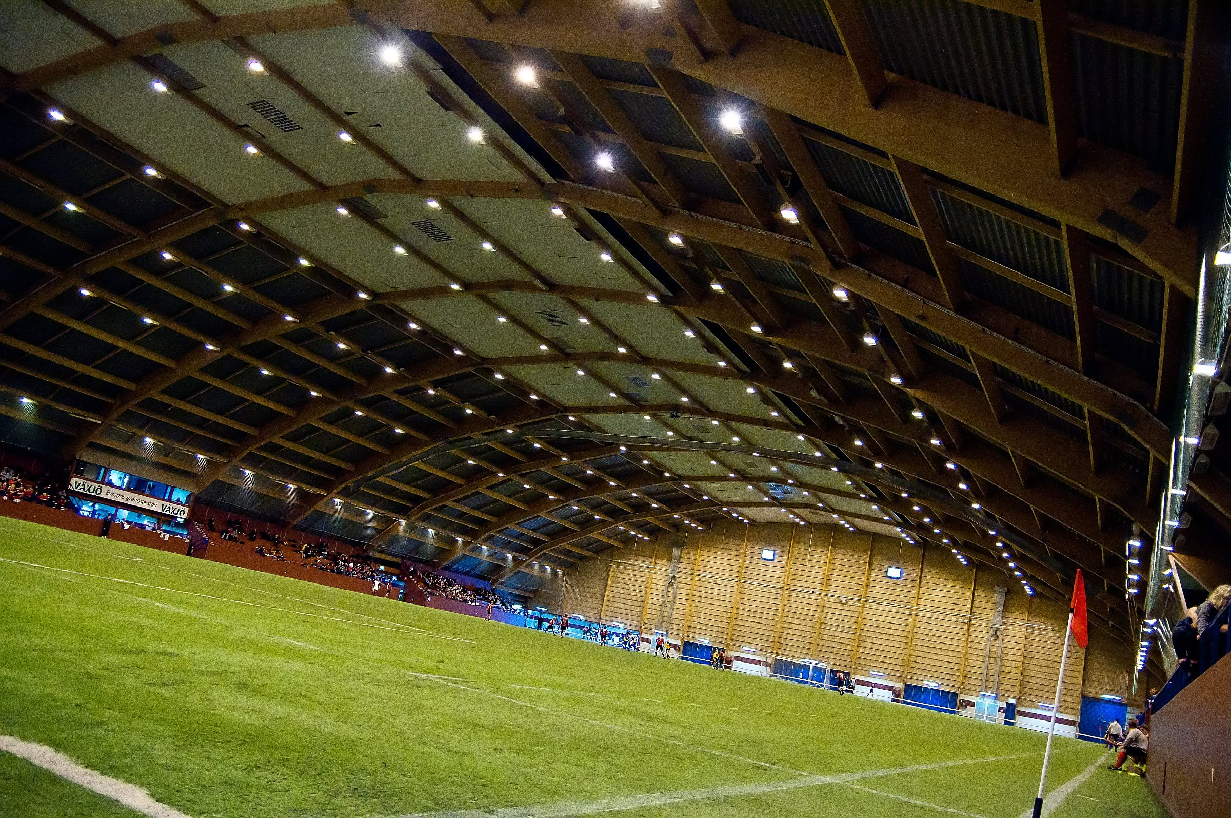 Interior view of Växjö Tipshall from the north west corner of the pitch.